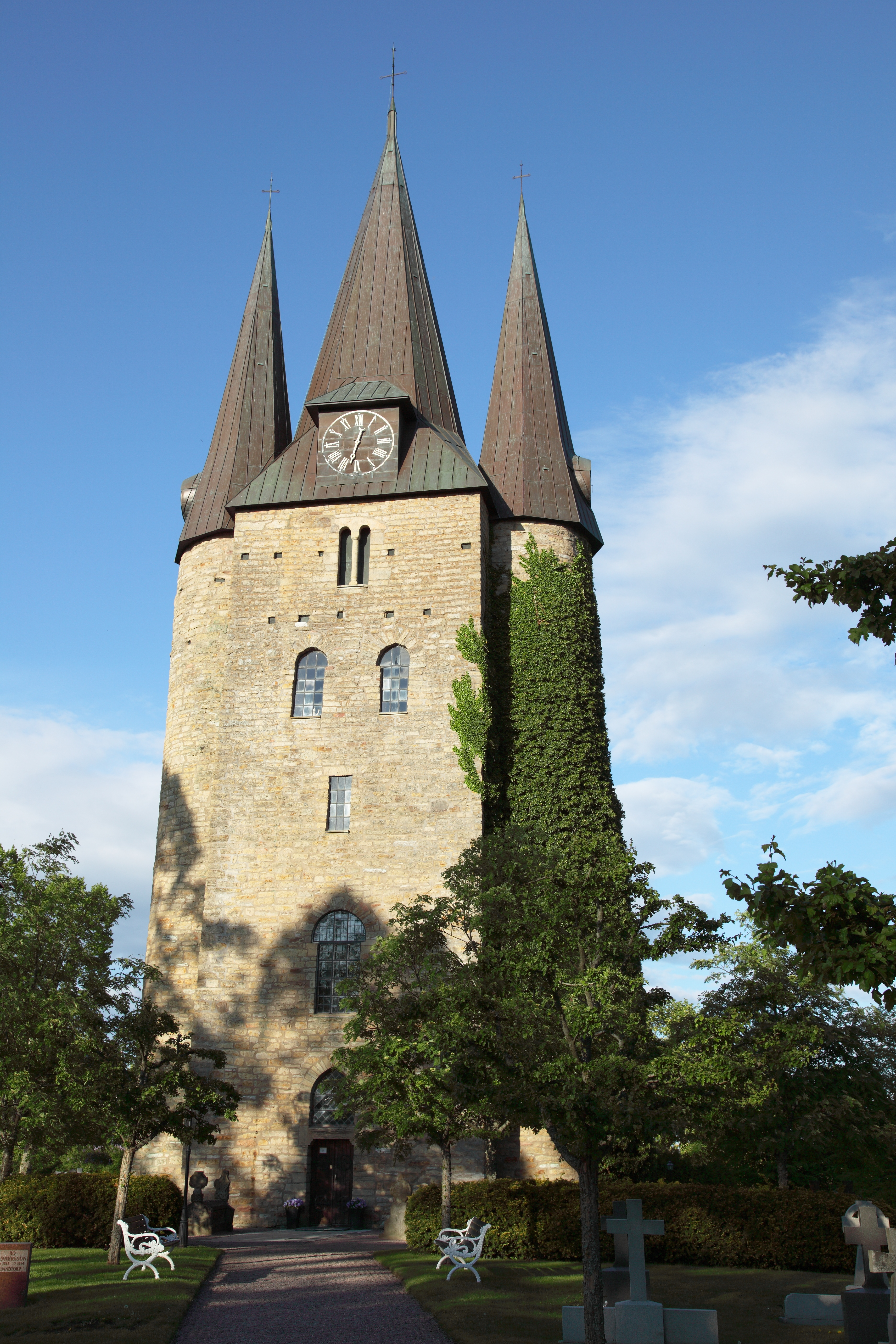 Husaby kyrka. A church near Lidköping